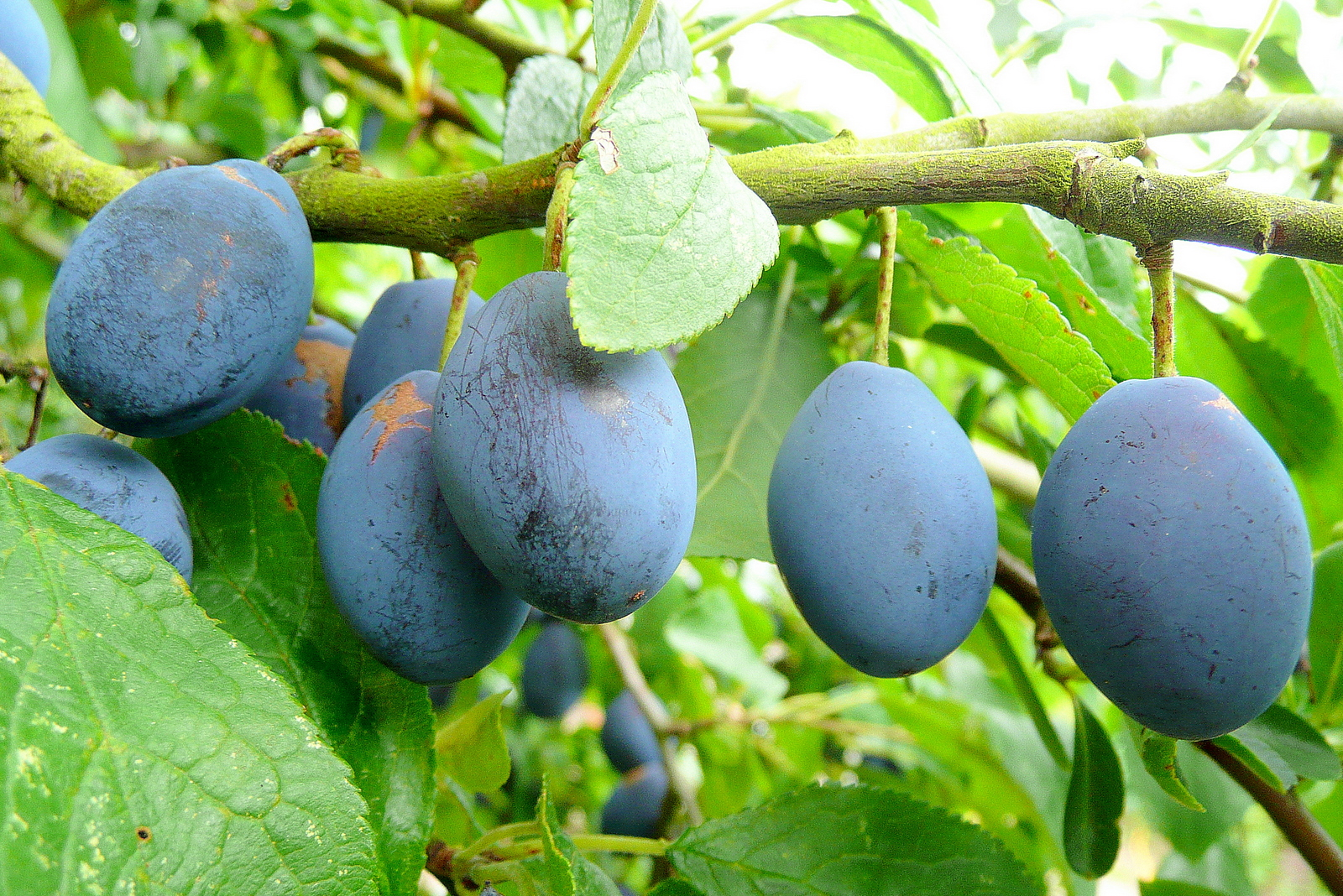 Fruit of damson cultivar (Prunus insititia), UK